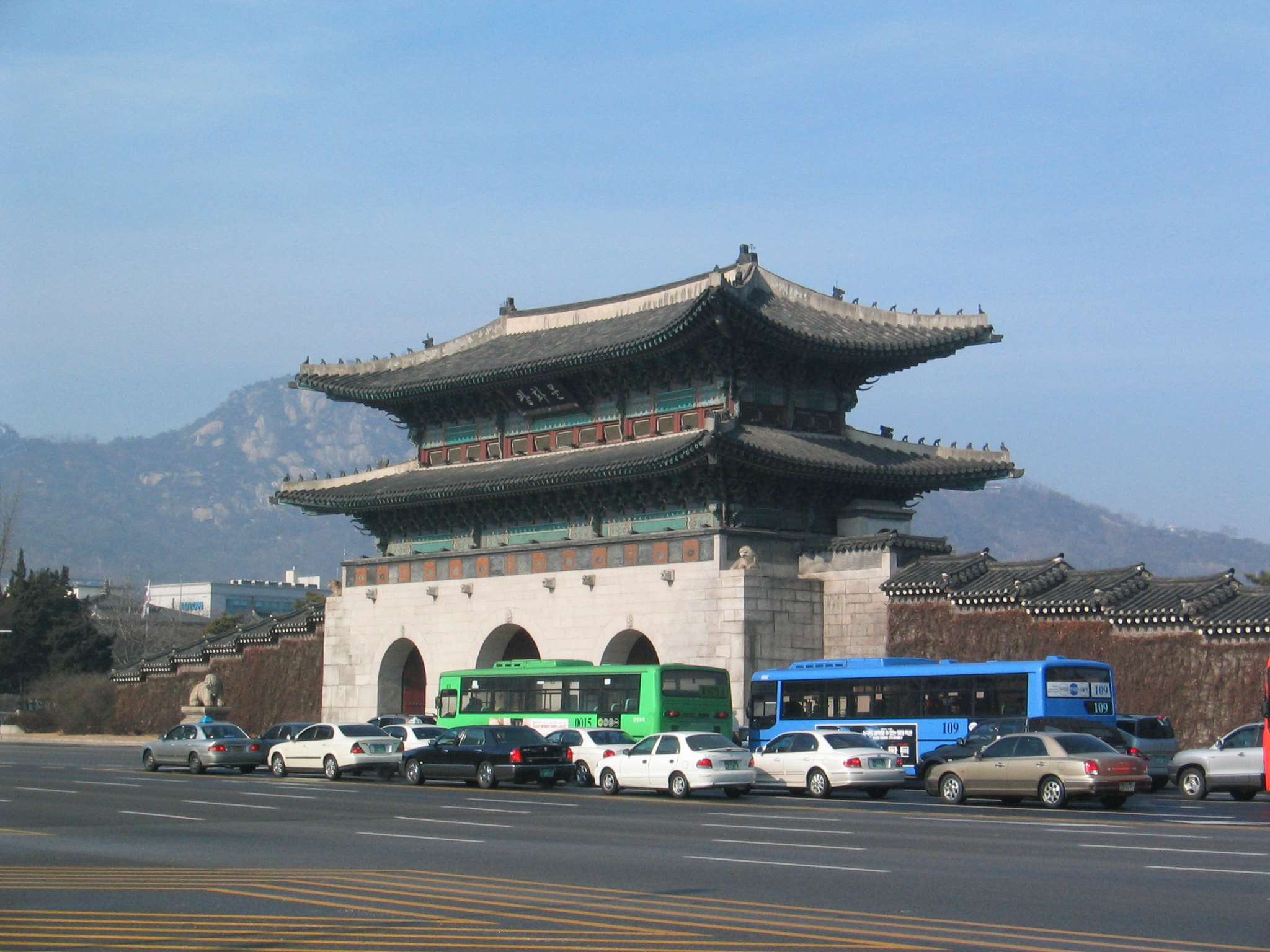 Outside of the Gwanghwamun (gate) into Gyeongbokgung one of the five royal palaces of Joseon Dynasty in Seoul, South Korea.